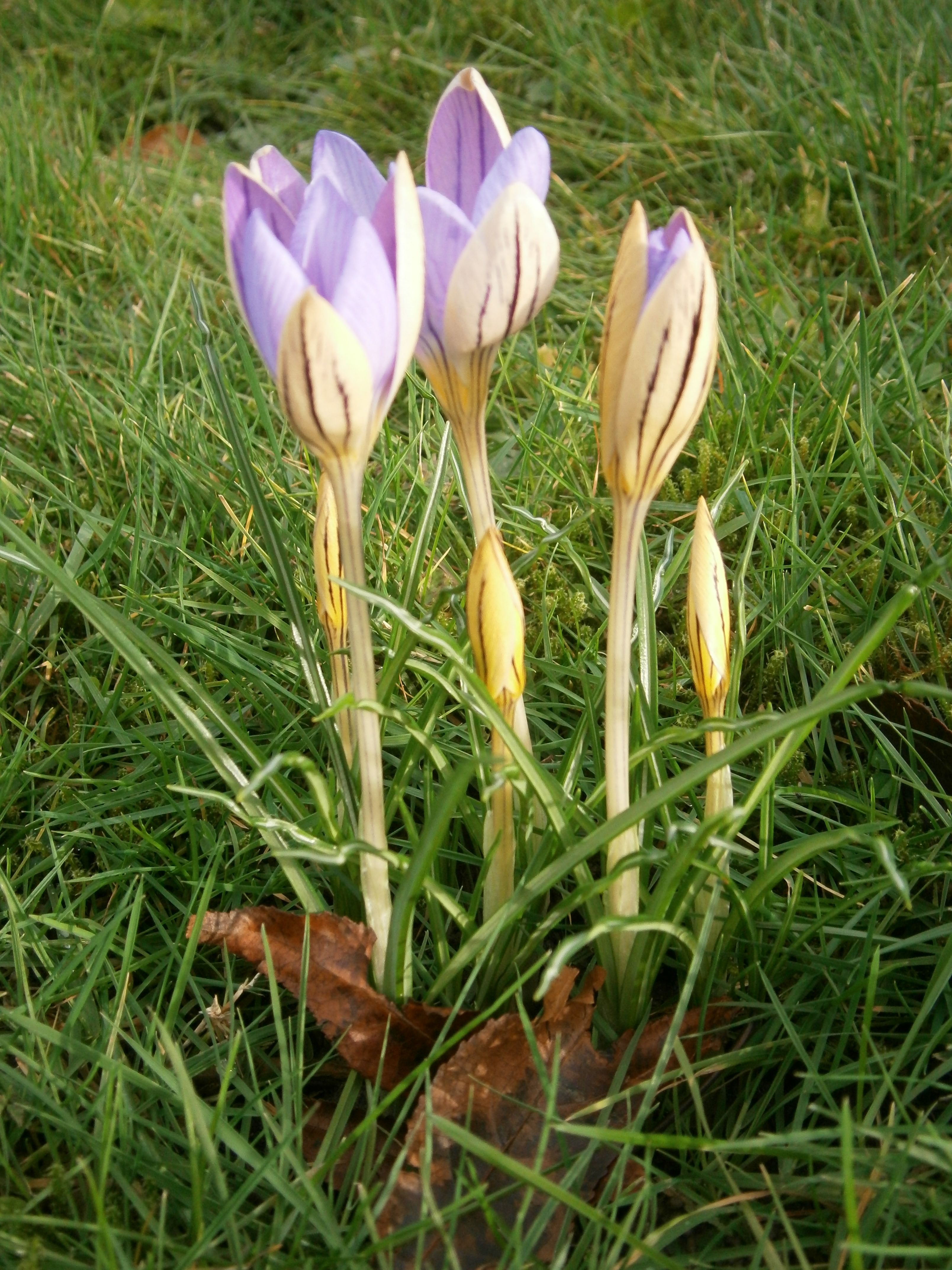 Crocus imperati 'De Jager' group